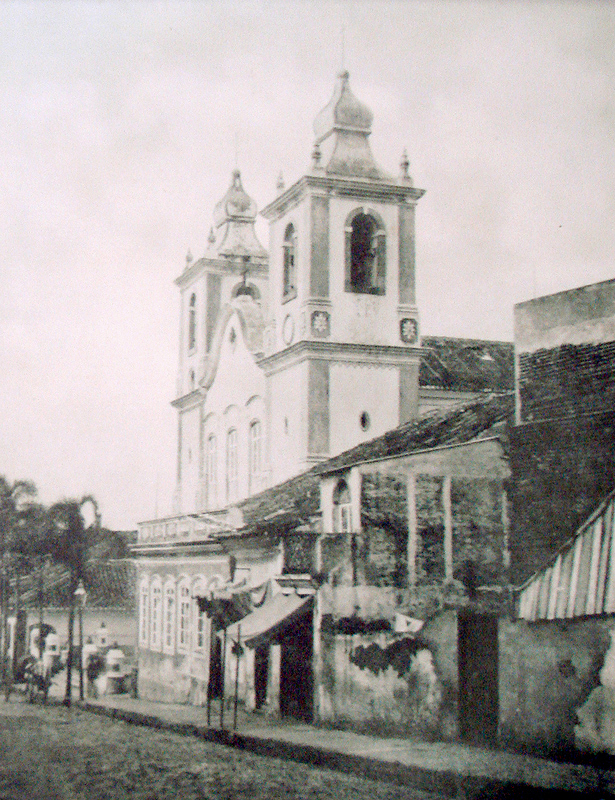 View of the old Church of Our Lady of the Rosary, Porto Alegre. Collection of Joaquim Felizardo Museum, unknown author.